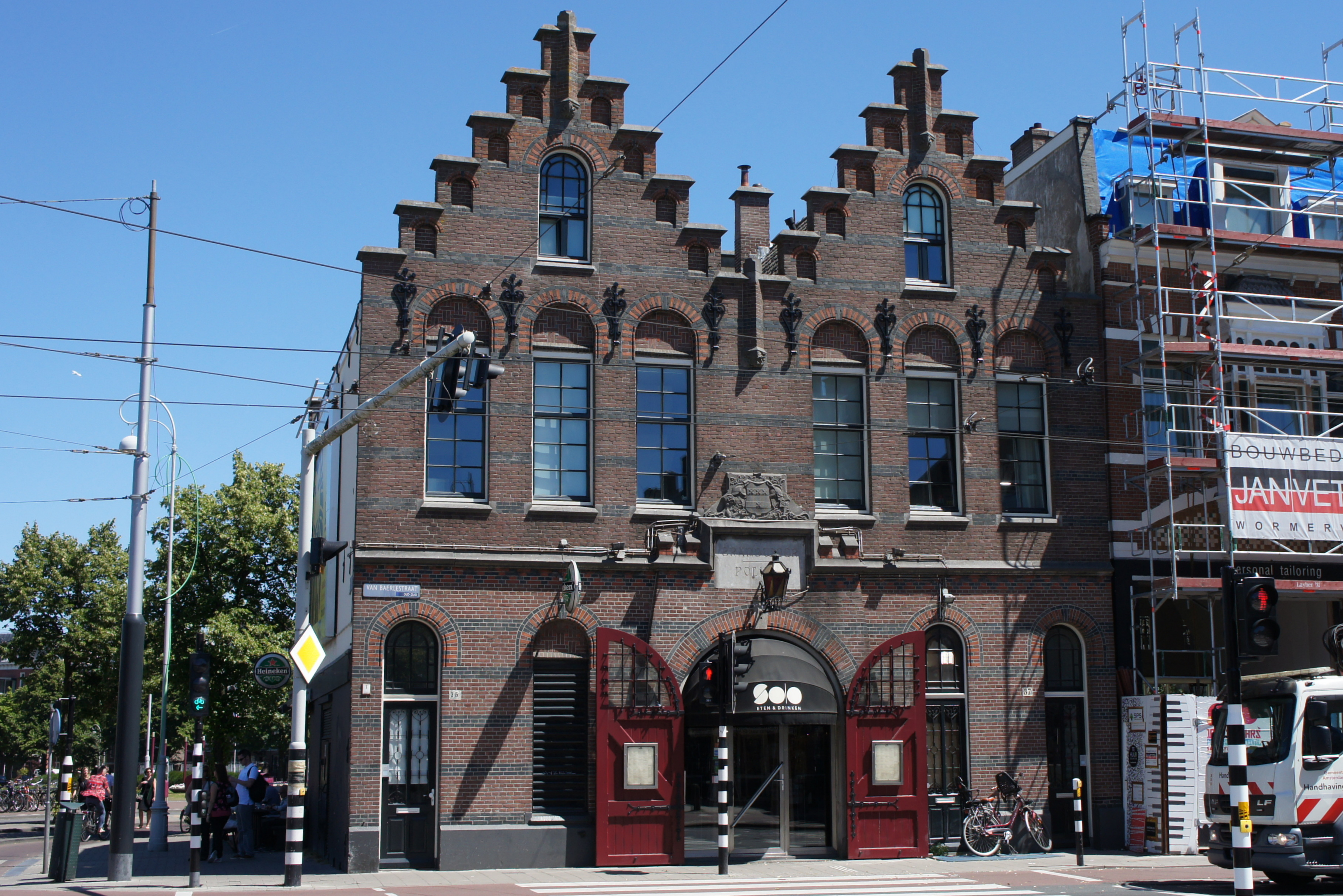 Photographed in Amsterdam.